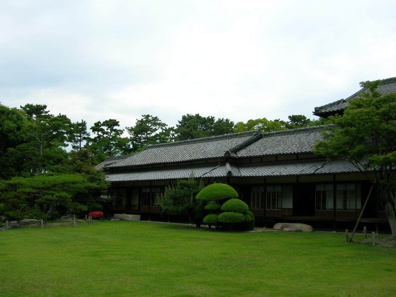 Rokka-en Wa-kan (Important Cultural Property: Seiroku Moroto II's Residence - Japanese-Detached House) Loc: Kuwana, Mie Prefecture, Japan. ja: 六華苑 (旧・二代目諸戸清六邸)、和館 撮影場所 三重県桑名市